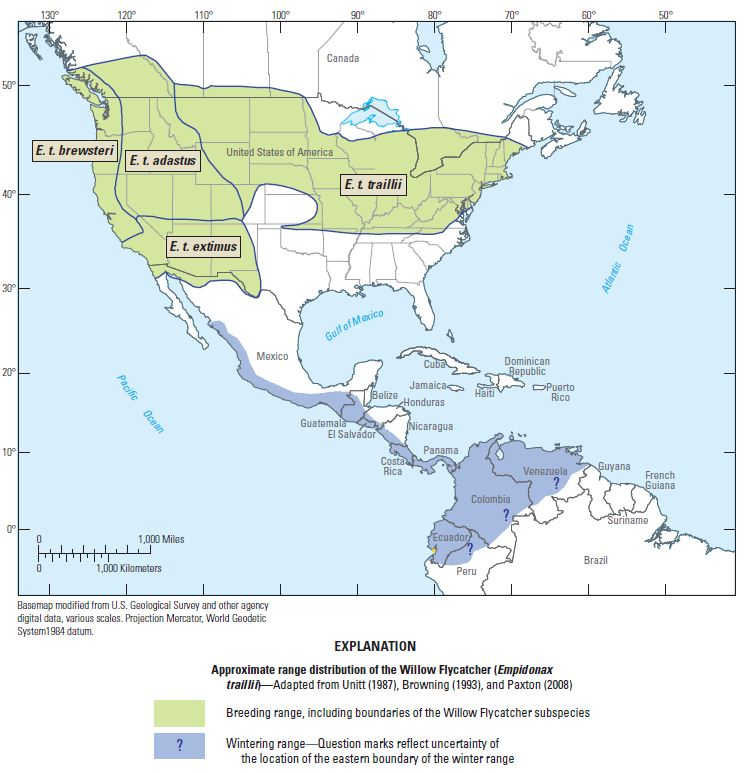 Summer breeding and winter ranges of Willow Flycatcher (Empidonax traillii) subspecies in western North America. from USGS survey protocol.